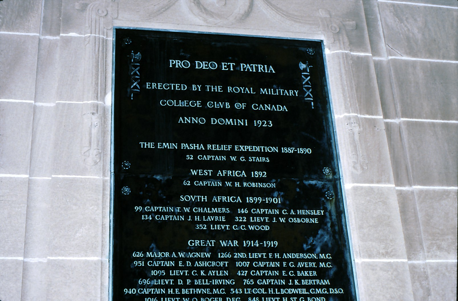 Memorial to William Stairs inside the Royal Military College Memorial Arch in Kingston, Ontario, Canada